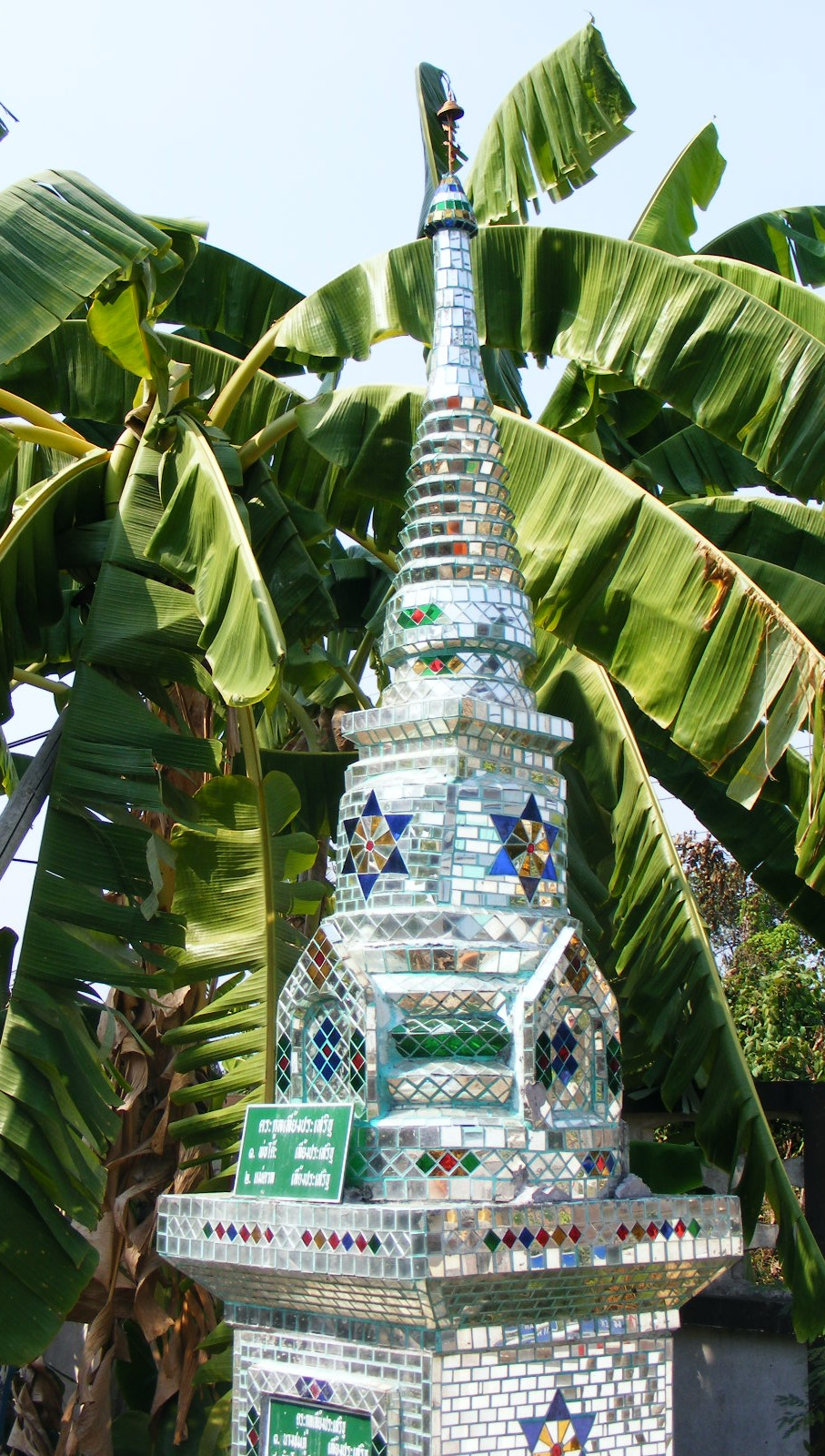 Wat Khung Taphao Location: Wat Khung Taphao Ban Khung Taphao, Khung Taphao subdistrict, Mueang Uttaradit, Uttaradit Province, Thailand.